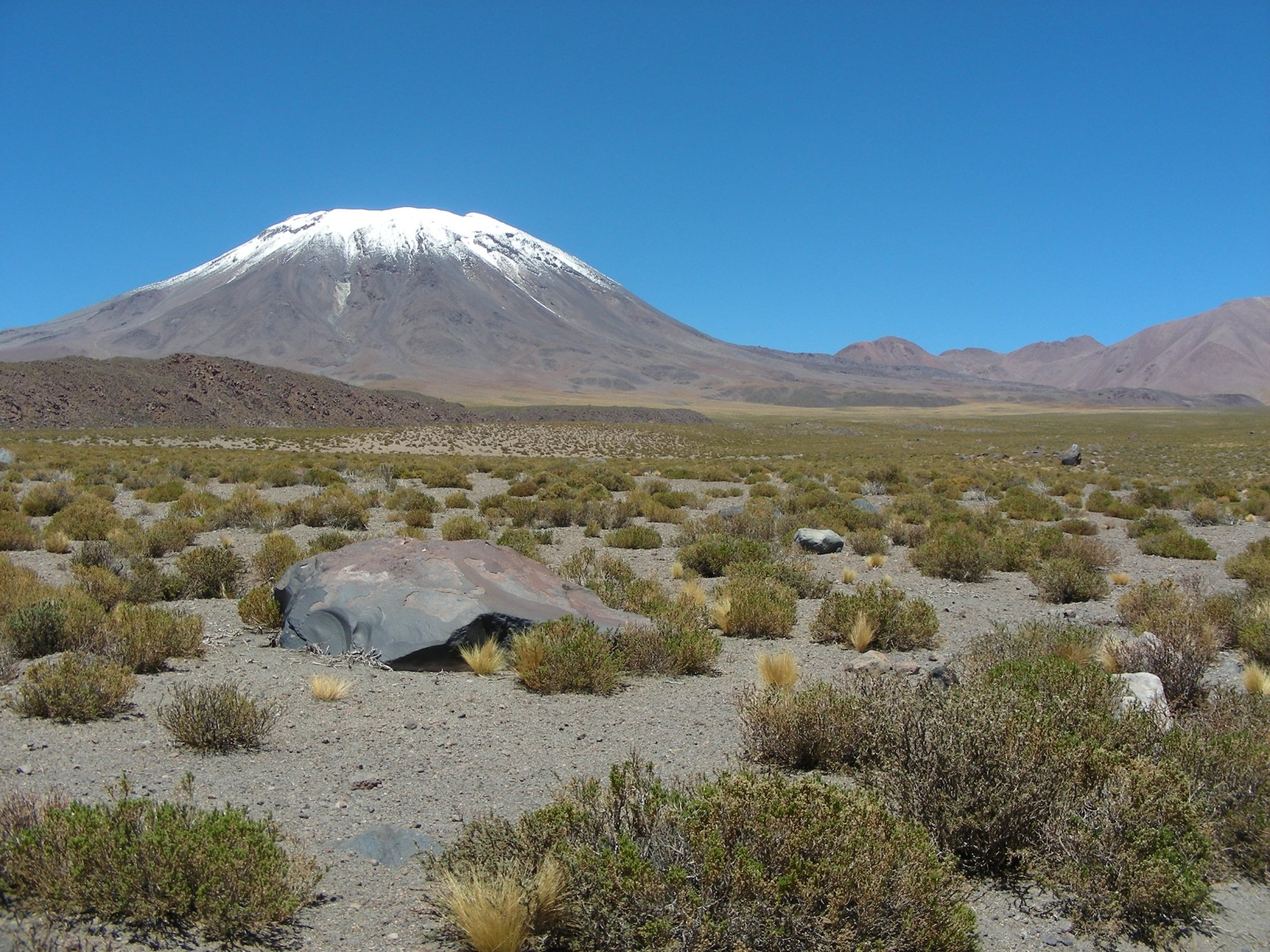 Volcan Lascar